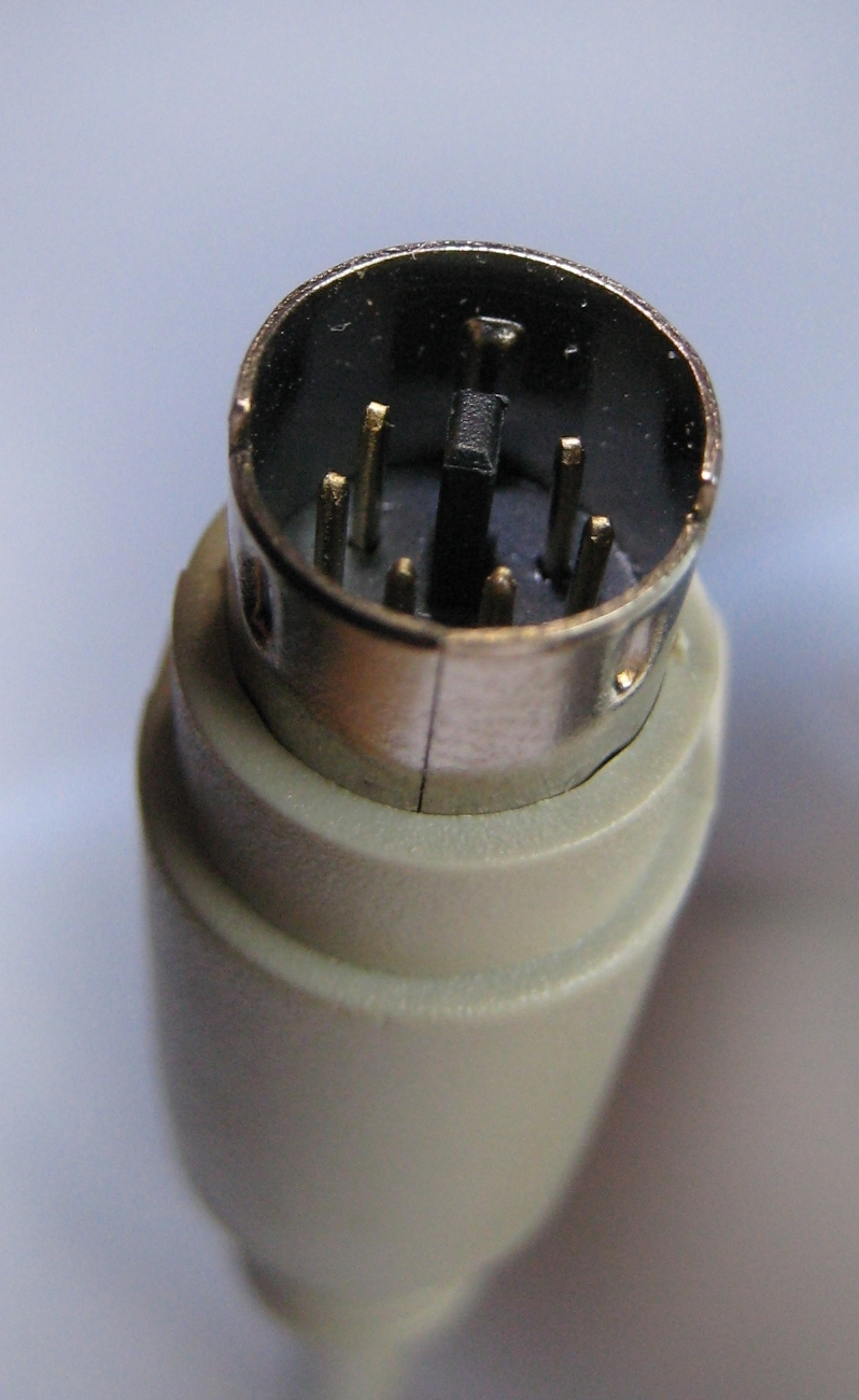 Close up to a male PS/2 connector